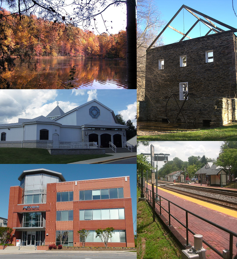 Germantown, Maryland Infobox Montage